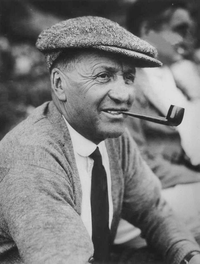 1932 Press Photo Golf pro James Hepburn of Mid-Ocean course in Bermuda